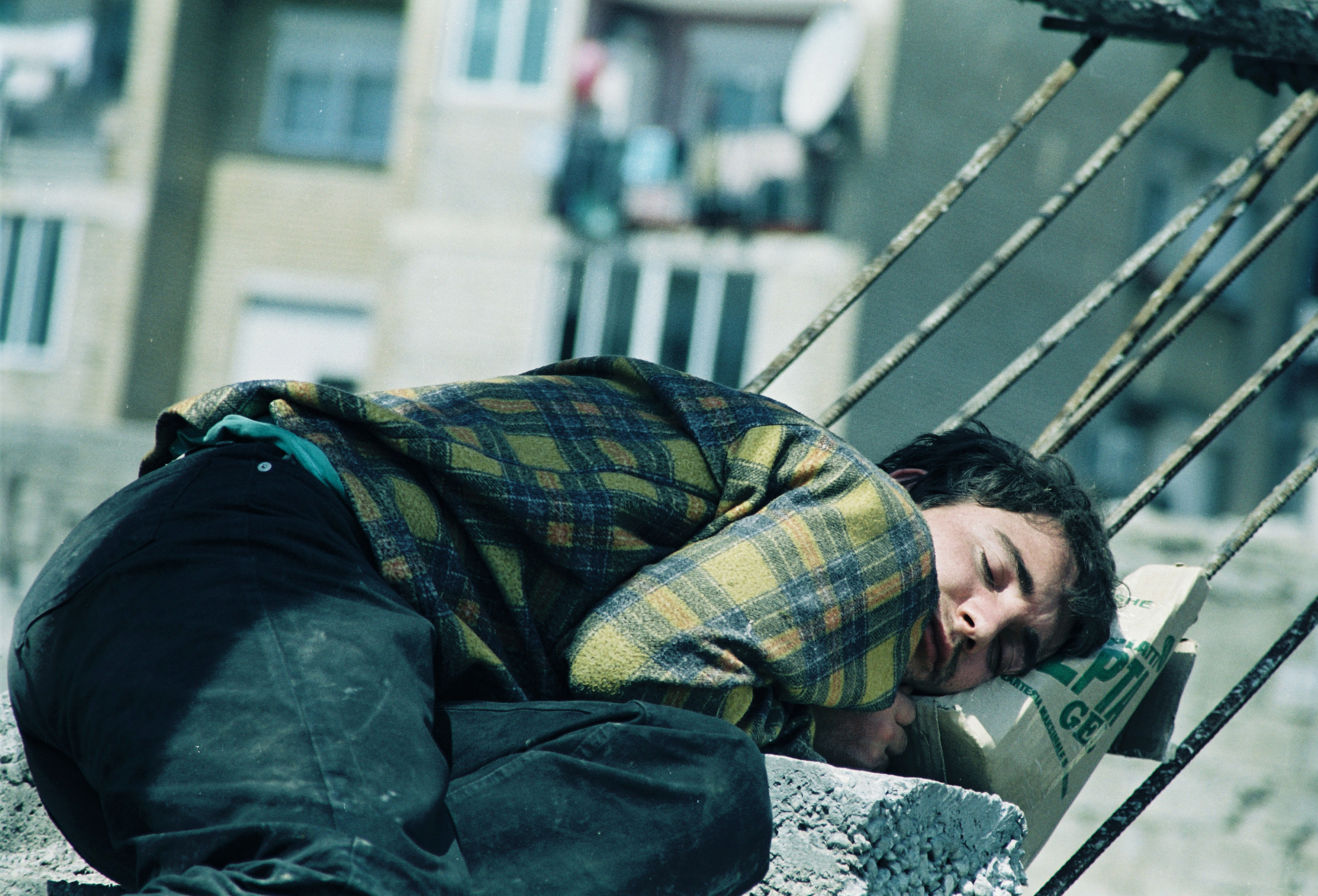 Man sleeping on the remains of a demolished house, probably his own, in Tirana (Albania) in summer 2002. The city government of Tirana had destroyed a lot of houses, built without permission in the 1996/97 period of anarchy in Albania.